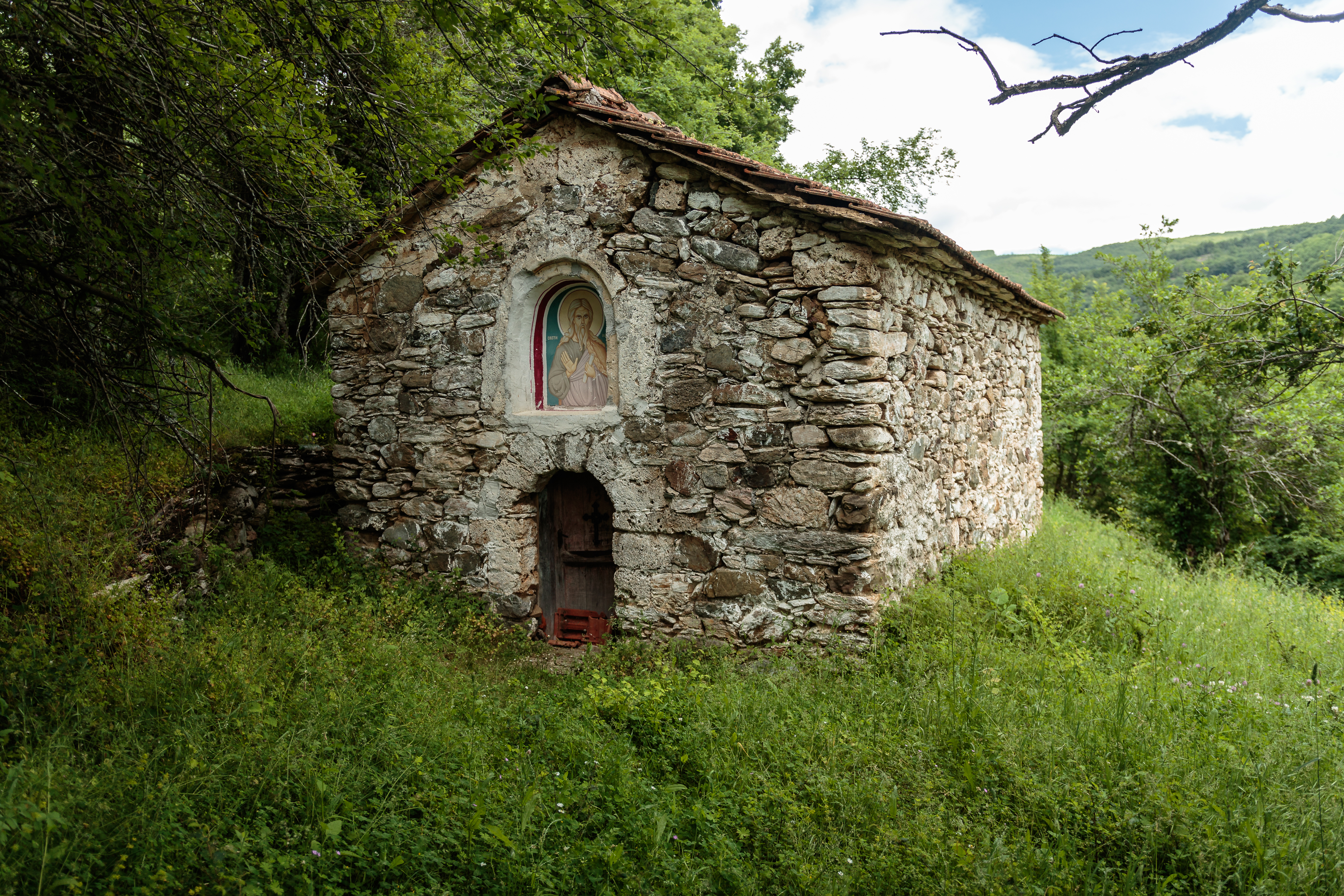 View of the St. Elijah Church in the village Brezovo